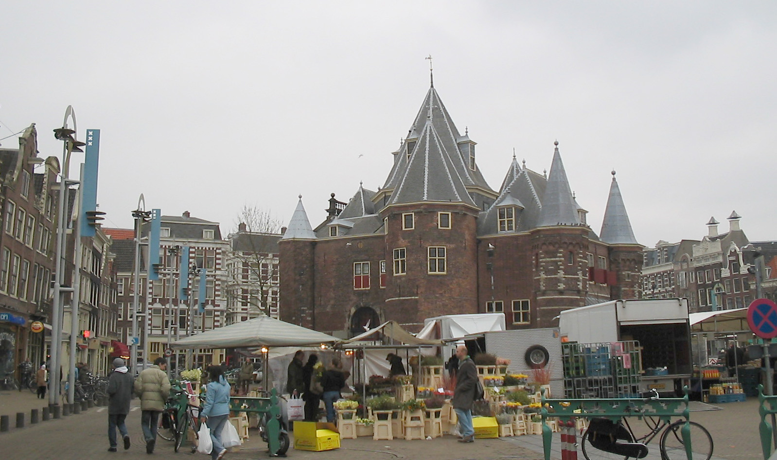 Nieuwmarkt. Created by Michiel1972, edited by S Sepp. Original: image:Nieuwemarkt.jpg. Note that the square is called 'Nieuwmarkt', without the 'e', so the file is misnamed. The building is the 'Waag', a former city gate.